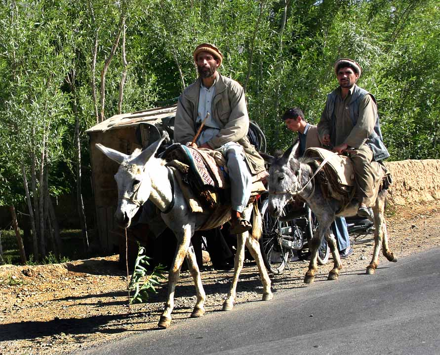 Tajik men from northern Afghanistan sitting on donkeys in 2005.